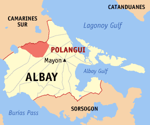 Locator map of Polangui in Albay, Philippines.